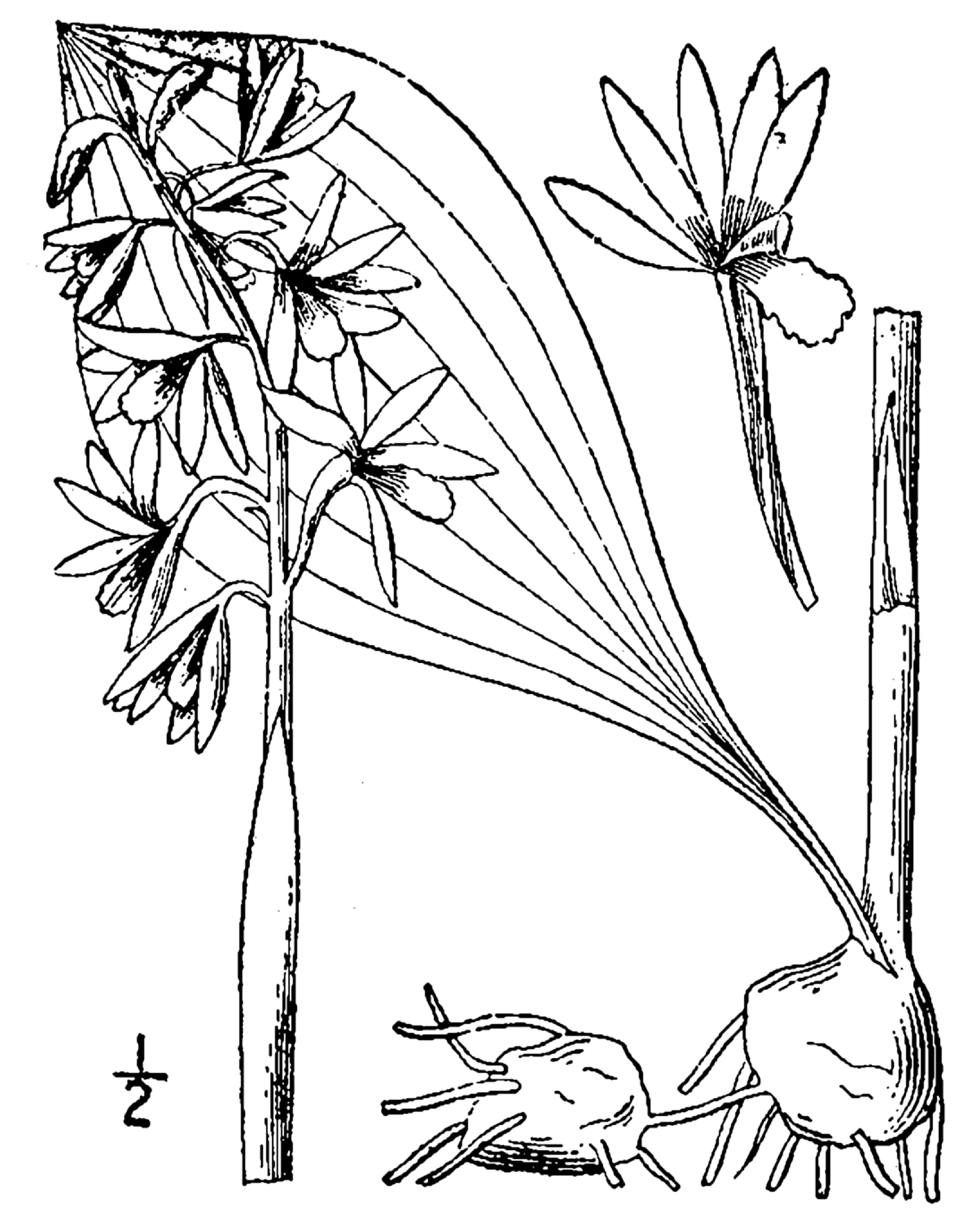 illustration of Aplectrum hyemale in Britton, N.L., and A. Brown: An illustrated flora of the northern United States, Canada and the British Possessions. Vol. 1: 574.